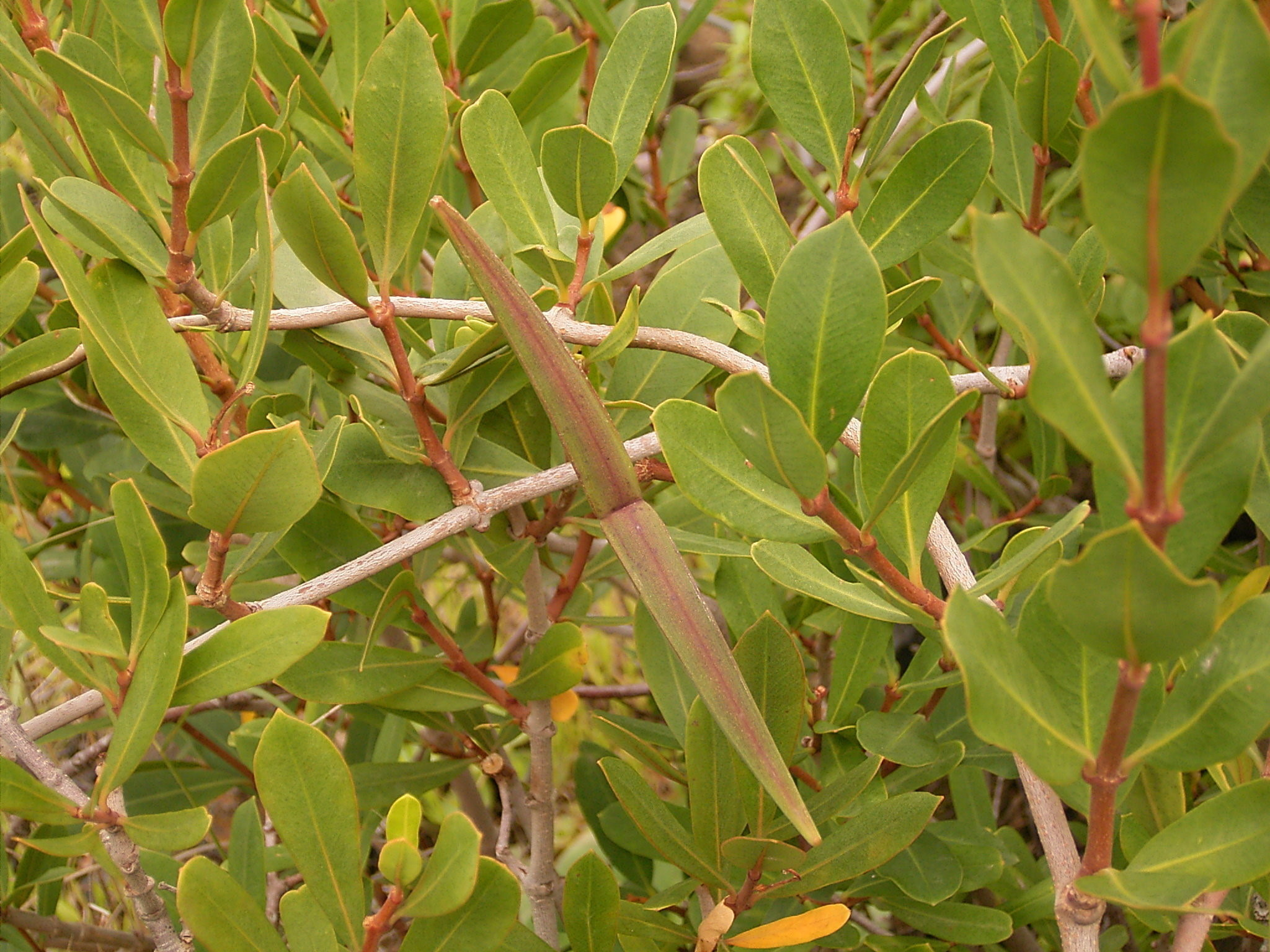 Periploca laevigata growing in San Andrés y Sauces, La Palma, Canary Islands